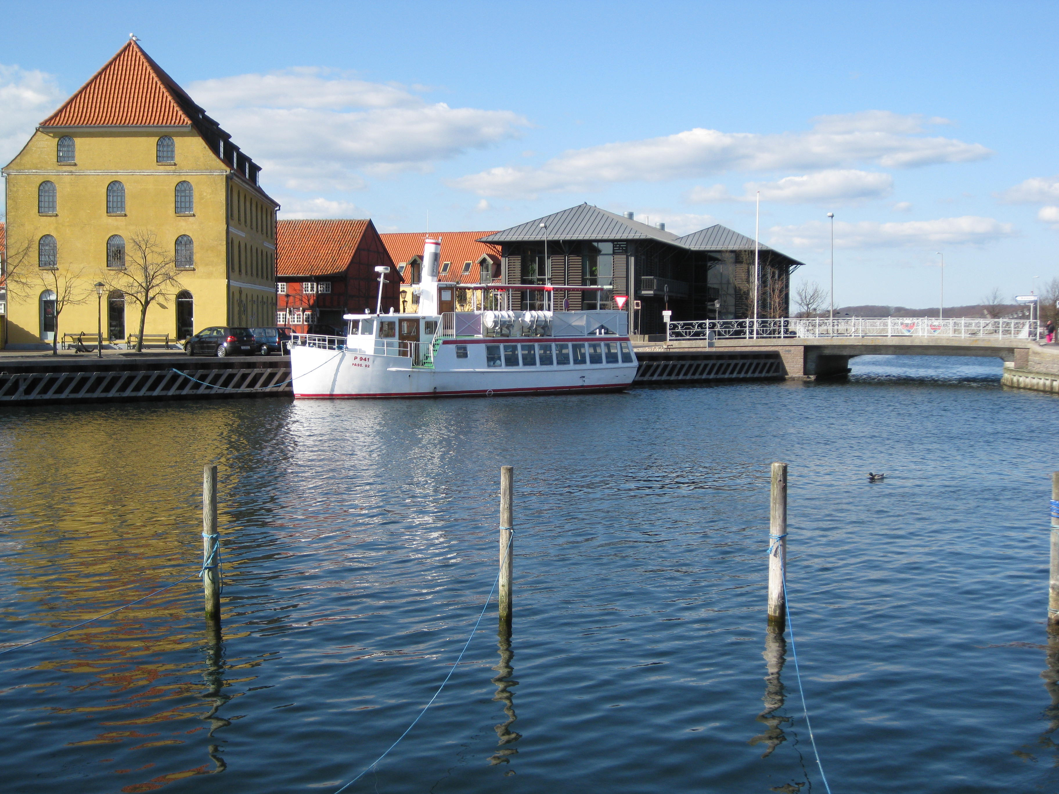 The habour of the town Skælskør. The town is located in West Zealand, Denmark.